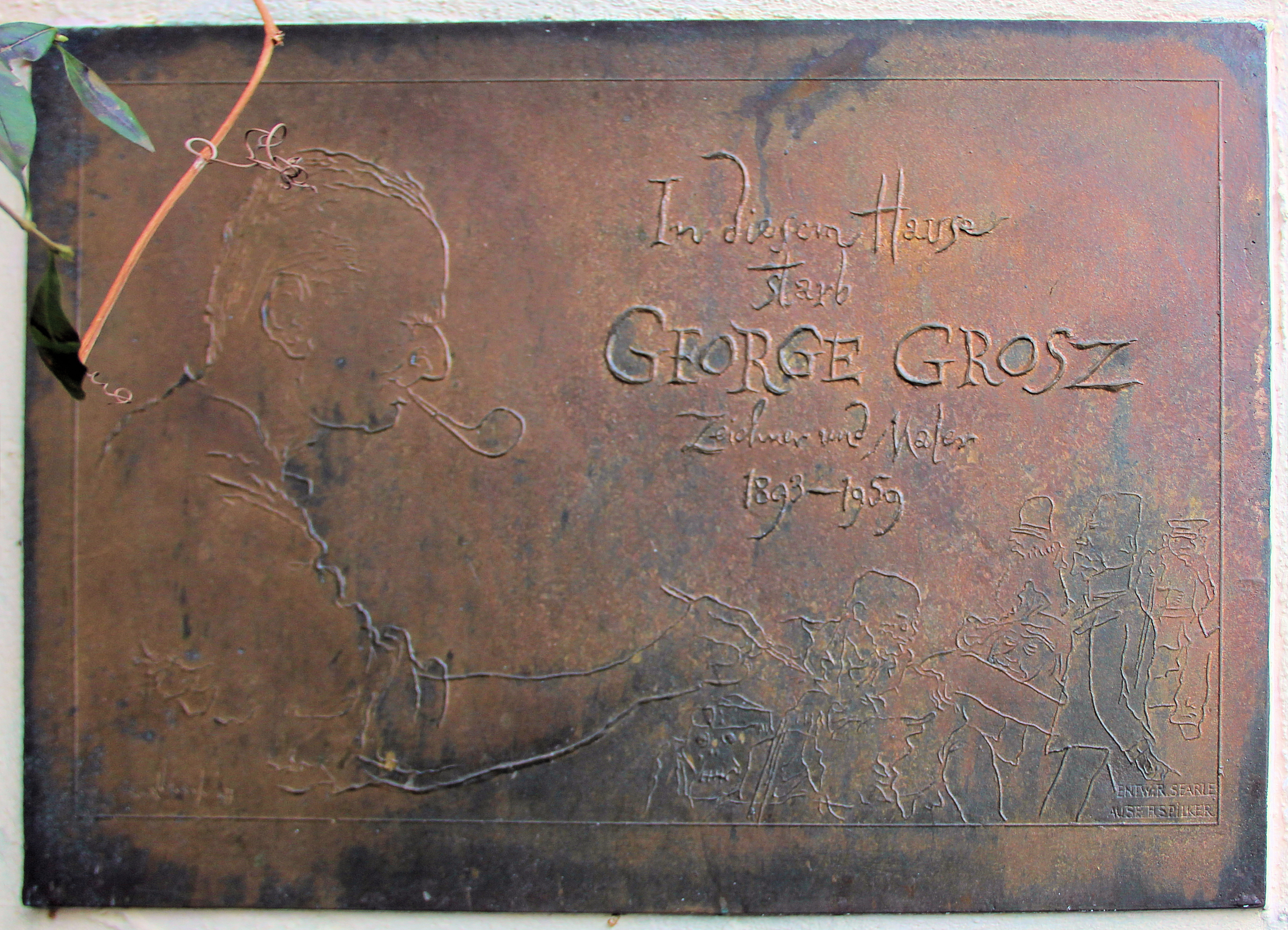 Memorial plaque, George Grosz, Savignyplatz 5, Berlin-Charlottenburg, Germany Koordinate:52°30′23″N 13°19′22″E / 52.50639°N 13.32278°E